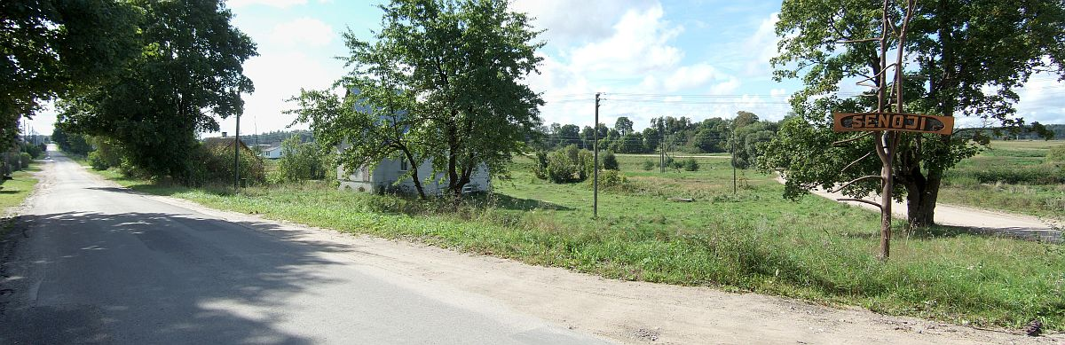 Village Paluknys (Trakai)